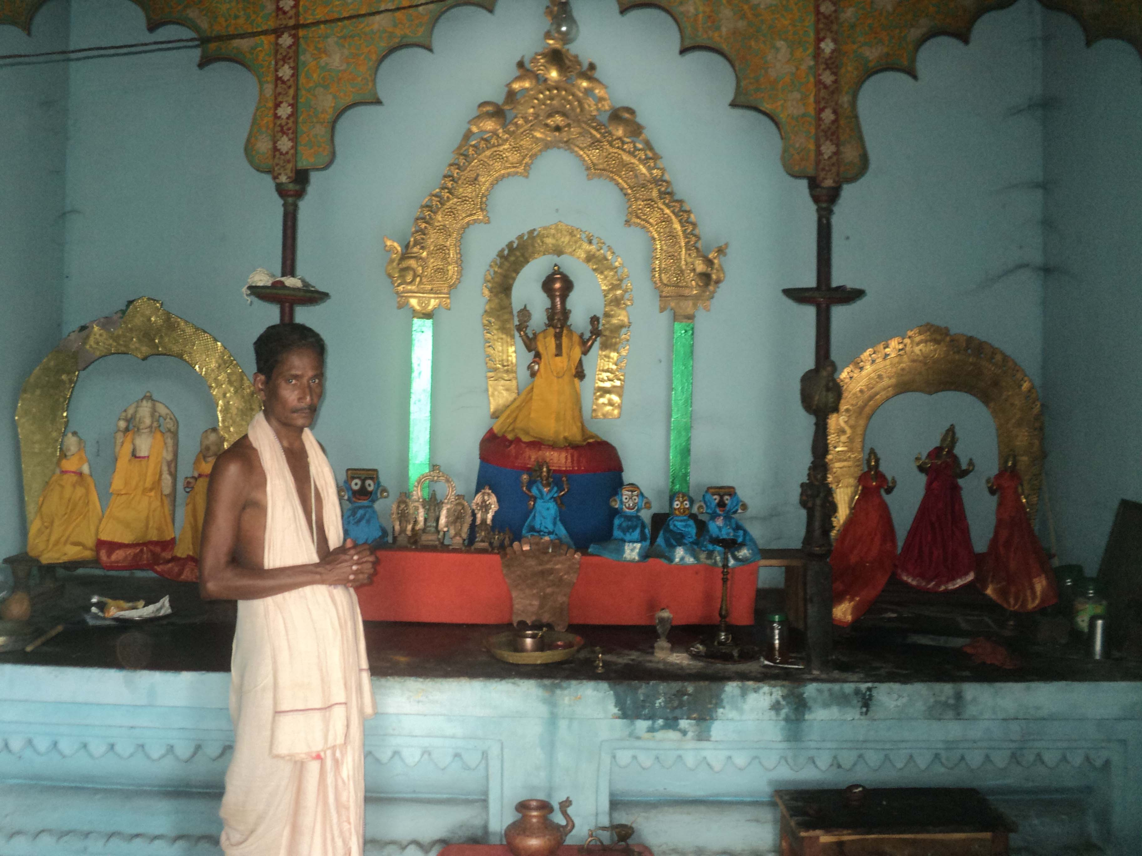 Balaji Temple